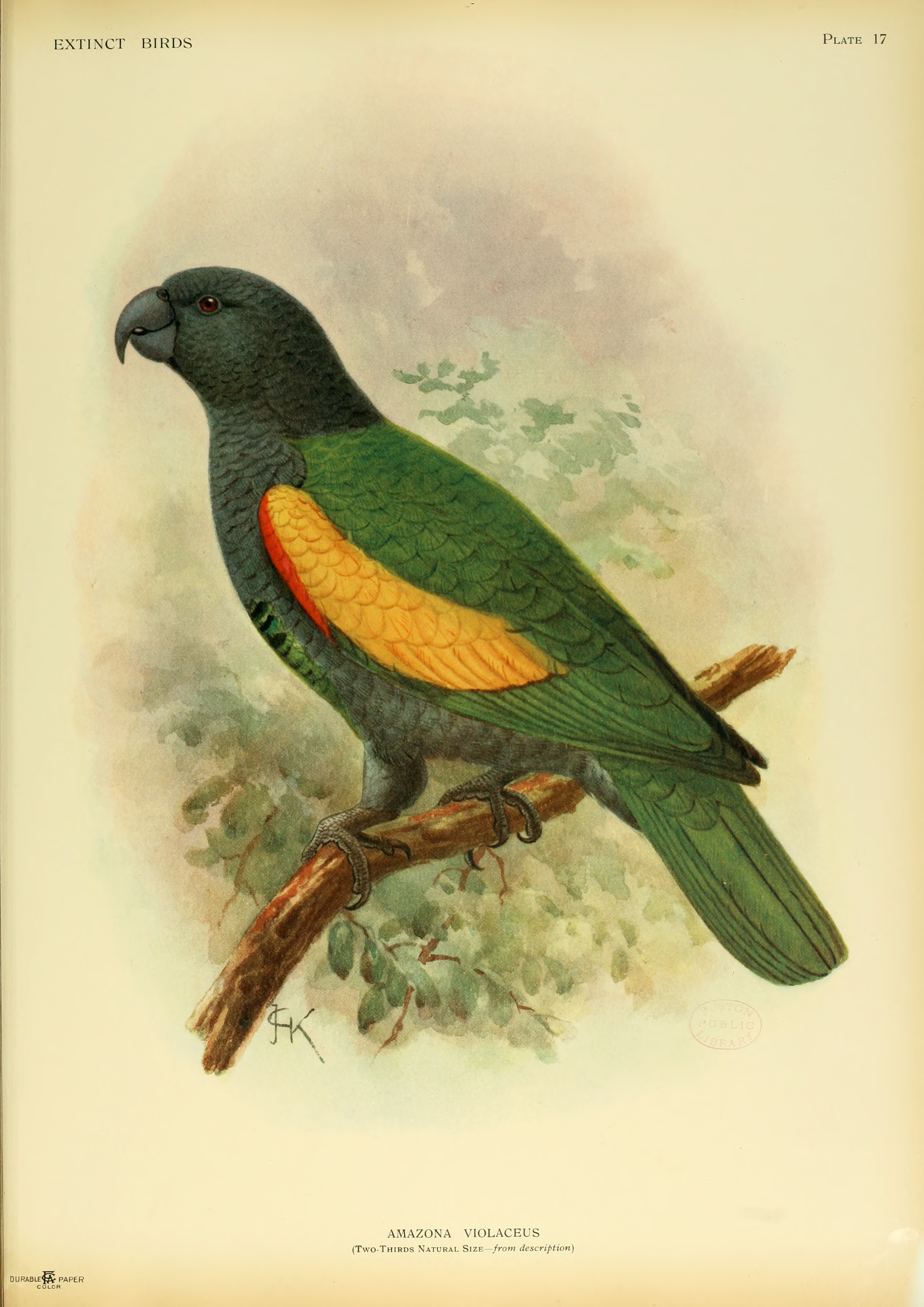 The Guadeloupe Parrot (Amazona violacea) was a species of parrot in the Psittacidae family. It was endemic to Guadeloupe.